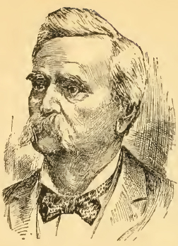 Kentucky Congressman Joseph Horace Lewis